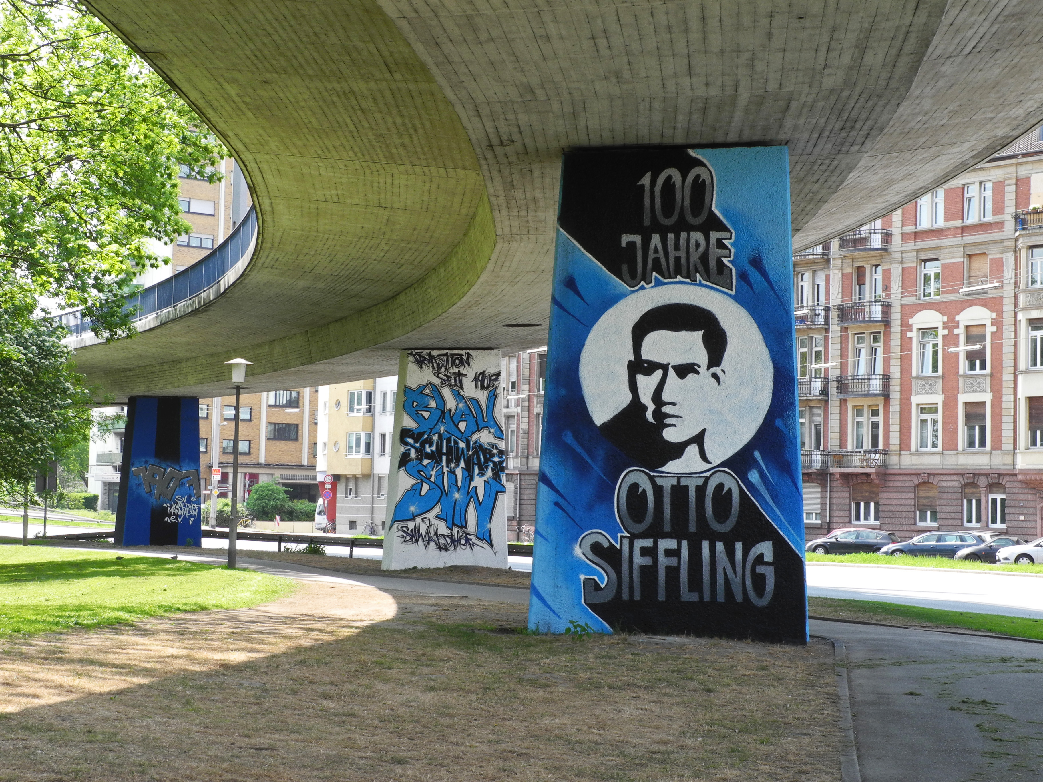 Graffiti 100 years Otto Siffling, in Mannheim, Parkring